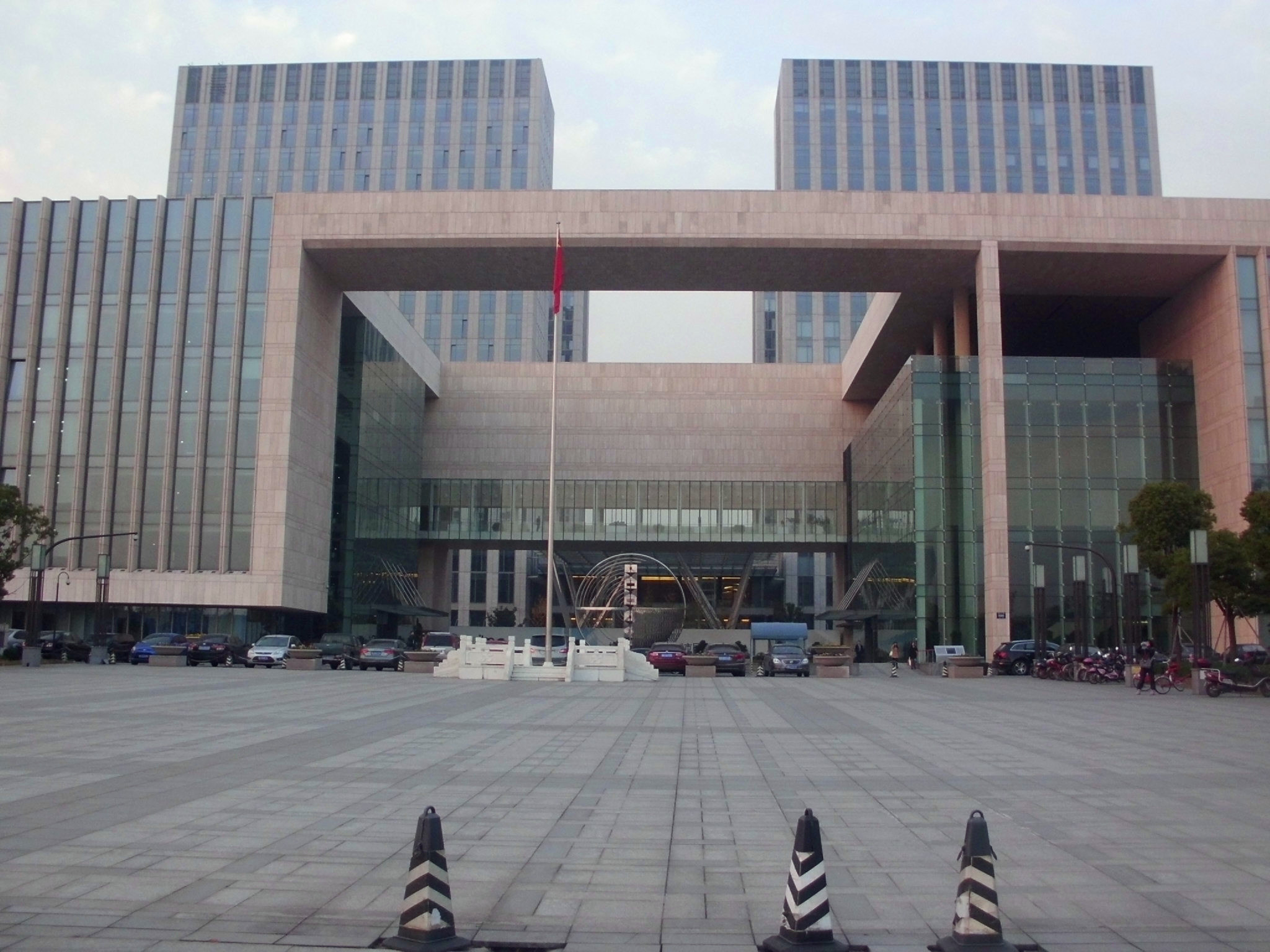 Hangzhou Economic and Technological Development Area